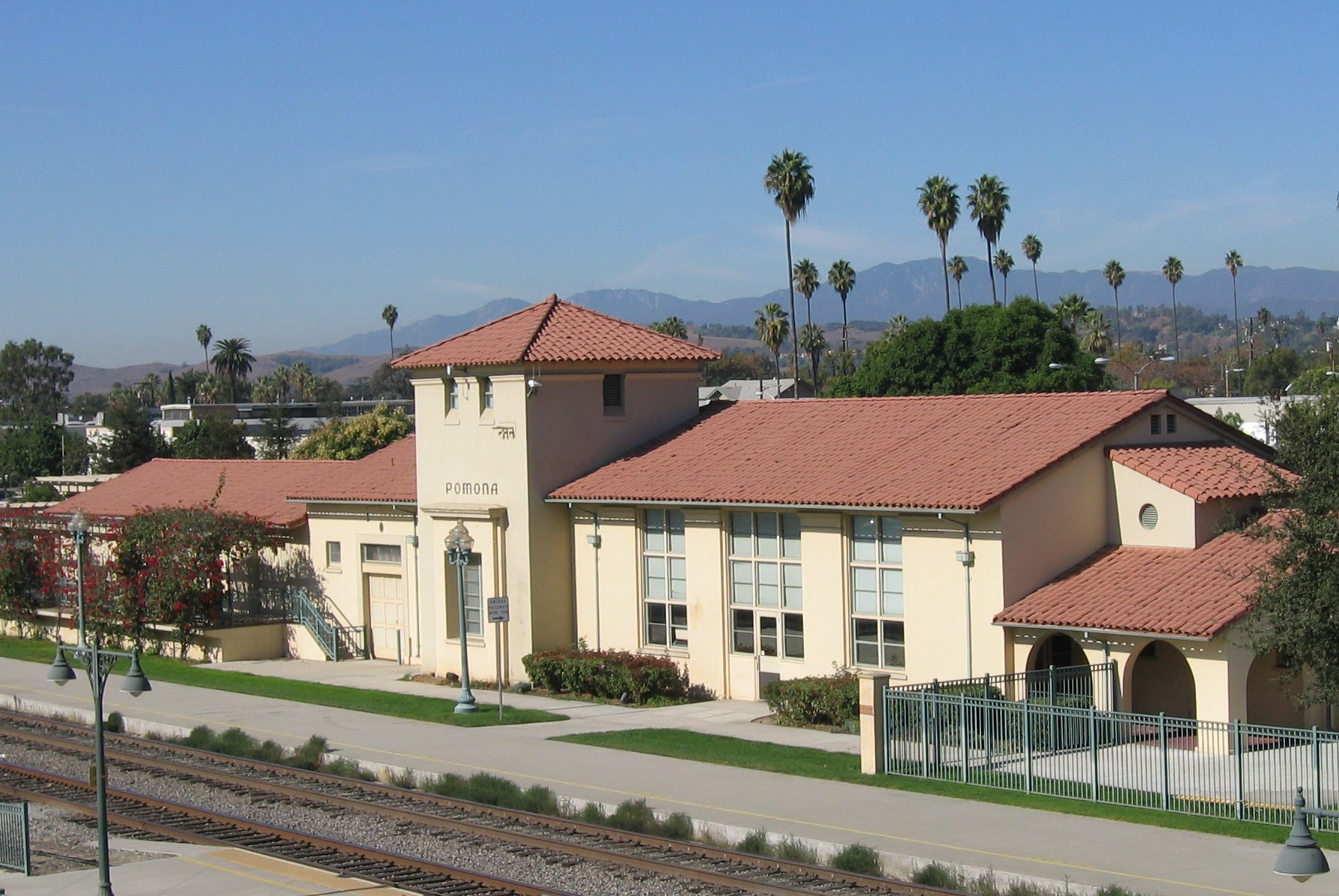 Pomona, California, Southern Pacific station used for Amtrak and as a regional transportation center.